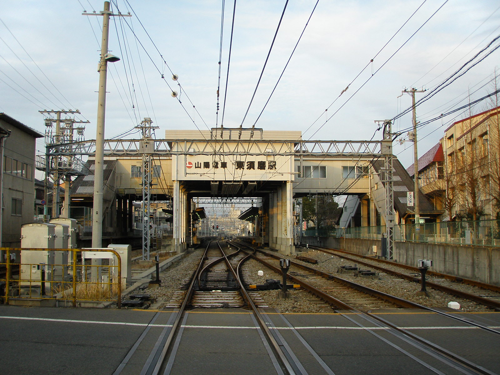 Sanyo Electric Railway Main Line Higashi-Suma Station Building